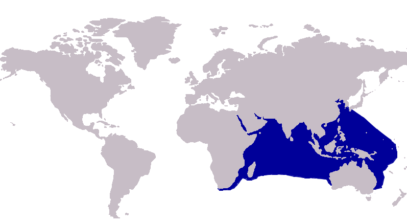 Distribution of the Indian threadfish, Alectis indicus. Information gathered from Fishbase and Carpenter et al 2002. Map taken from GDFL image